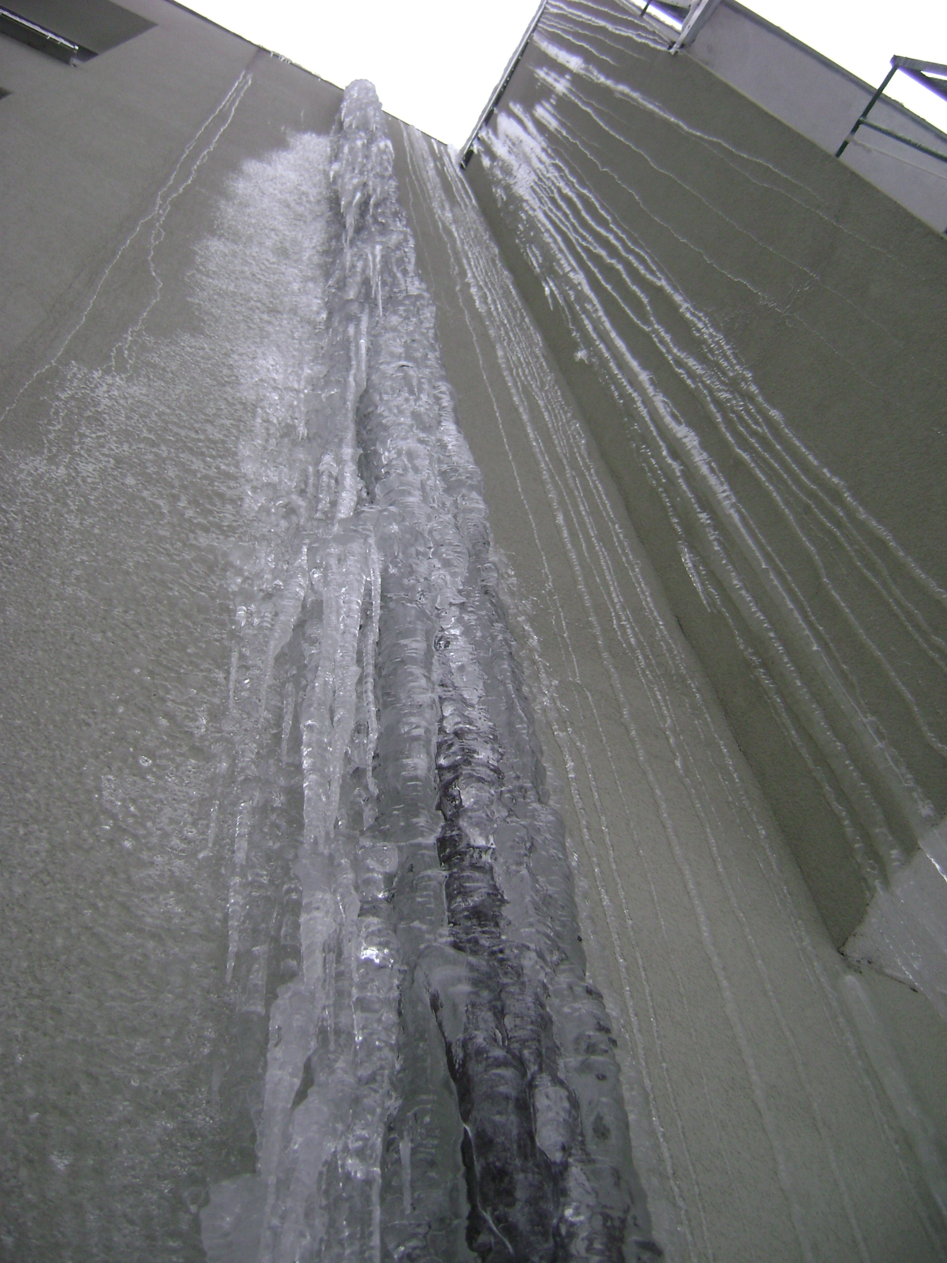 Icicles